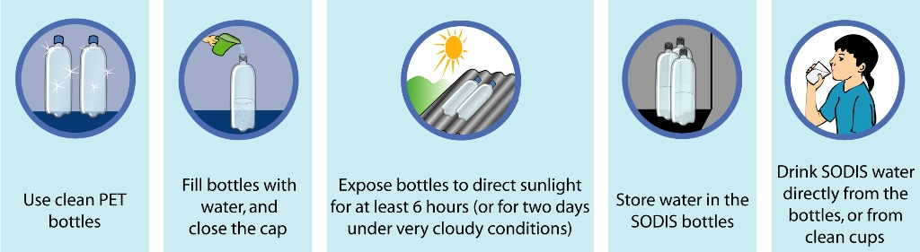 The picture illustrates the procedure to disinfect drinking water with the SODIS method (solar water disinfection)